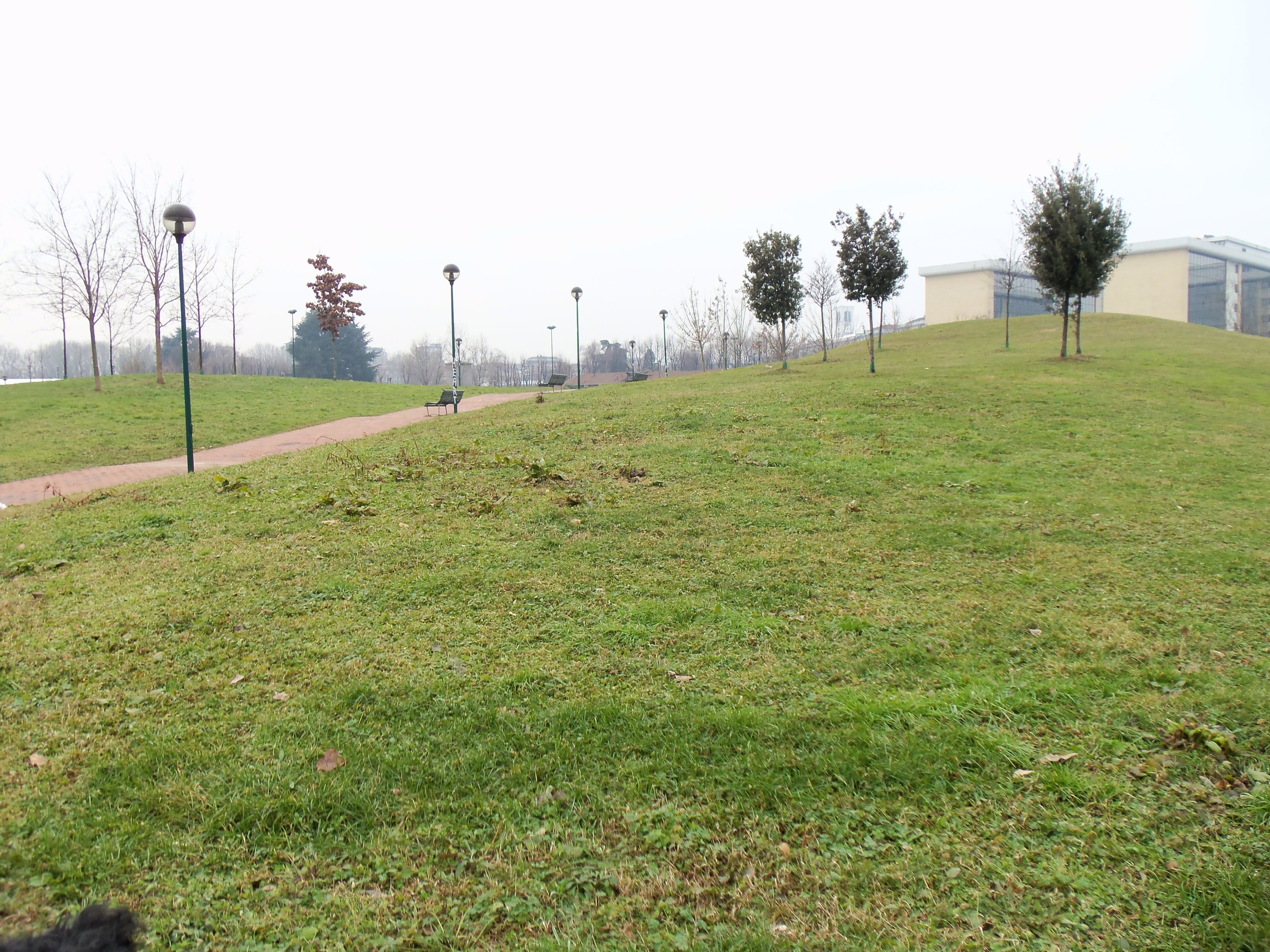 Sesto San Giovanni, Hills Prk (il Parco delle "colline"(kiln waste)